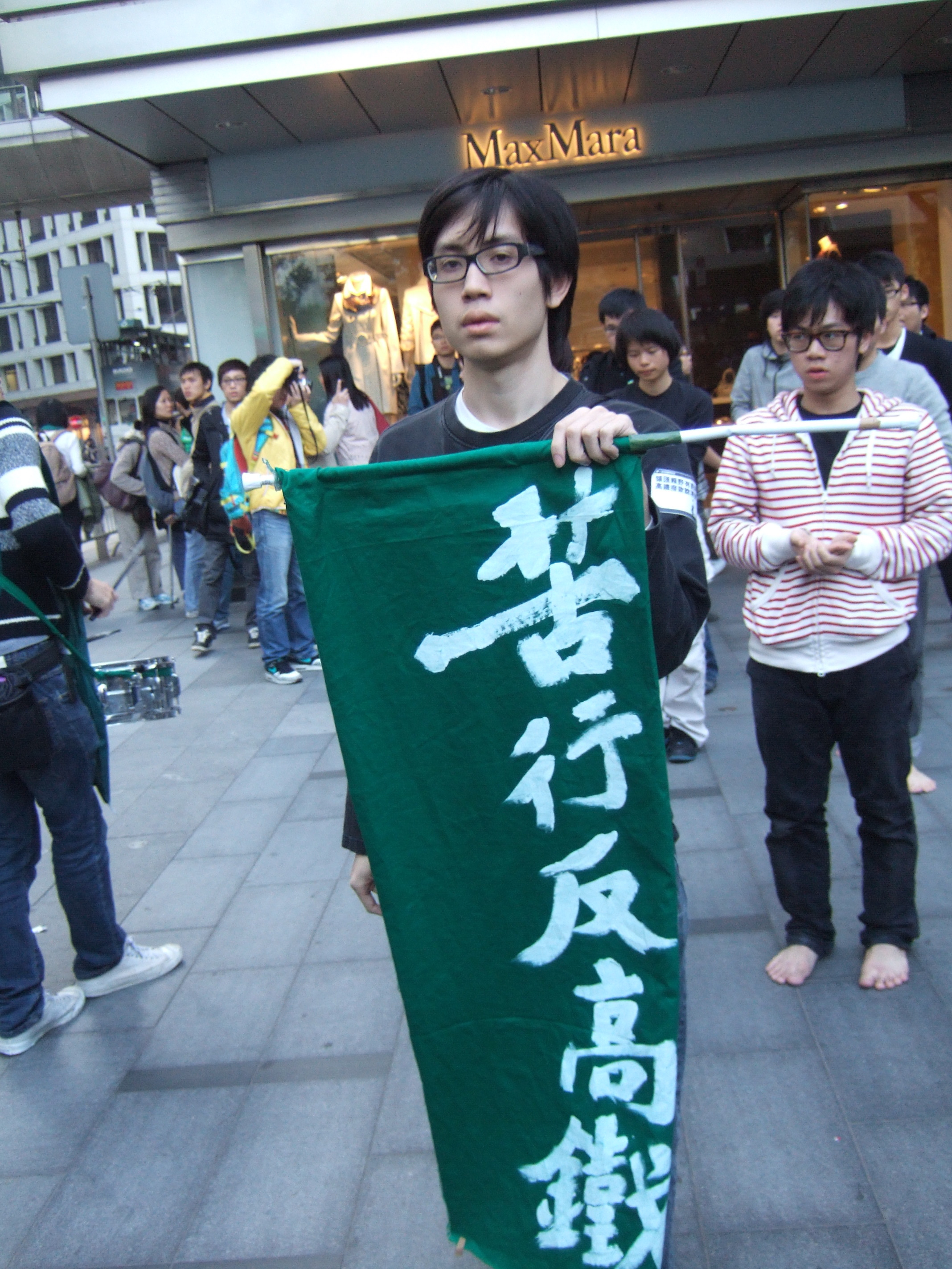 group of young protesters doing a traditional "bitter" protest march against the High speed rail link to Guangzhou to Legislative Council on 16 January 2010